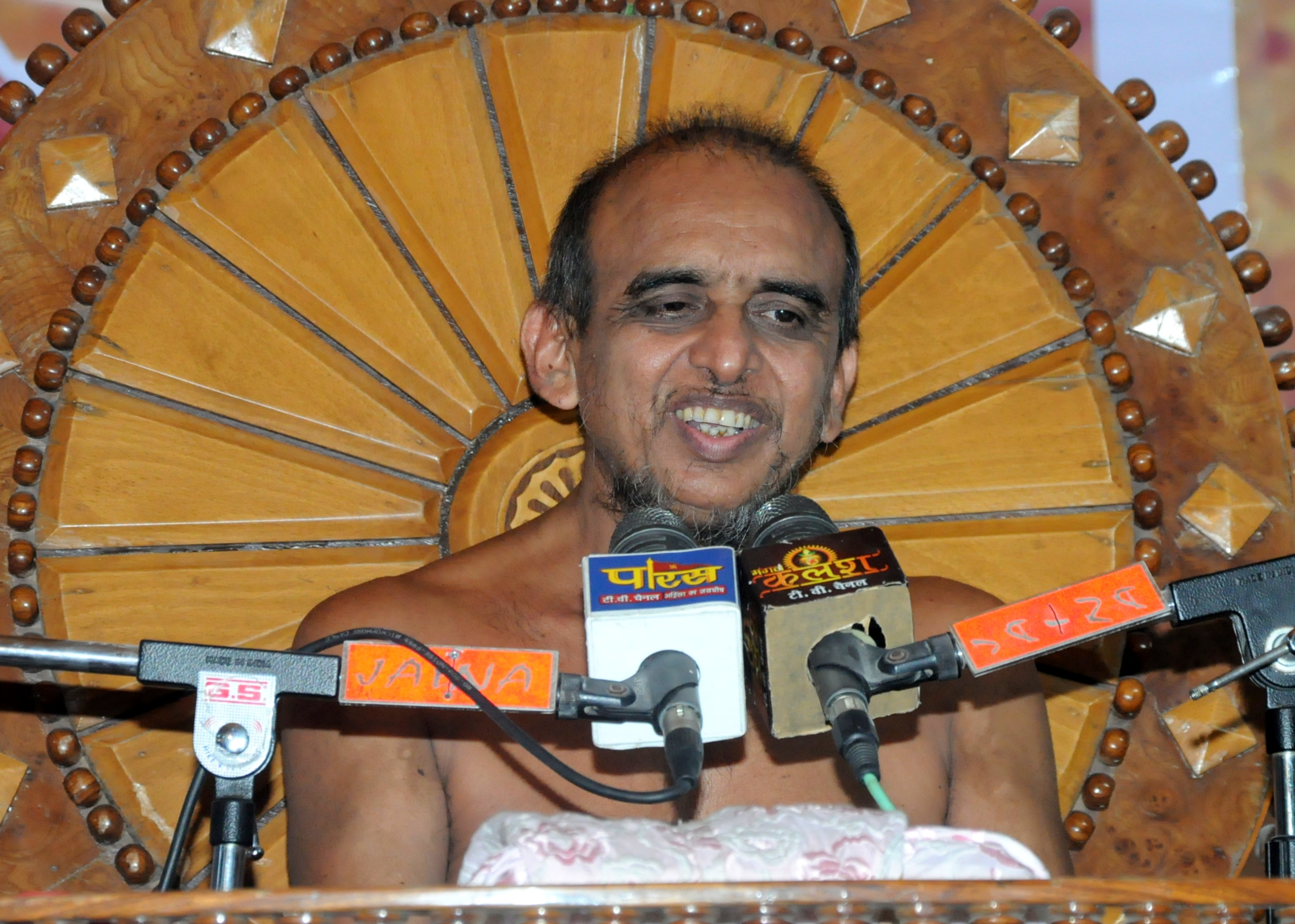 Acharya Gyansagarji delivering discourse (pravachan). These discourses are mainly on Ahinsa (non-injury) as mentioned in Jain texts.